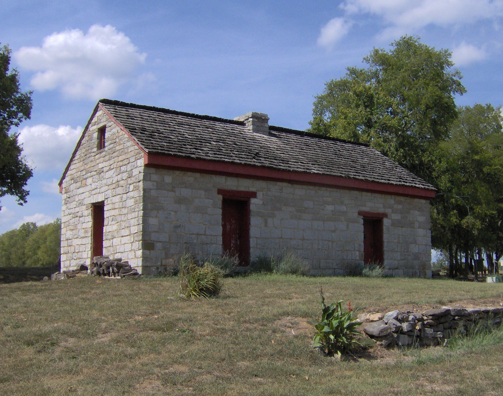 Hugh Rogan Cottage (also known as "Rogana") at Bledsoe's Fort Historical Park in Sumner County, Tennessee, in the southeastern United States. Hugh Rogan (1747-1814), a Tennessee frontiersman, built the cottage sometime around 1800. The cottage's design reflects folk traditions of Rogan's native Ireland. The cottage was dismantled and moved to Bledsoe's Fort Historical Park in 1998.